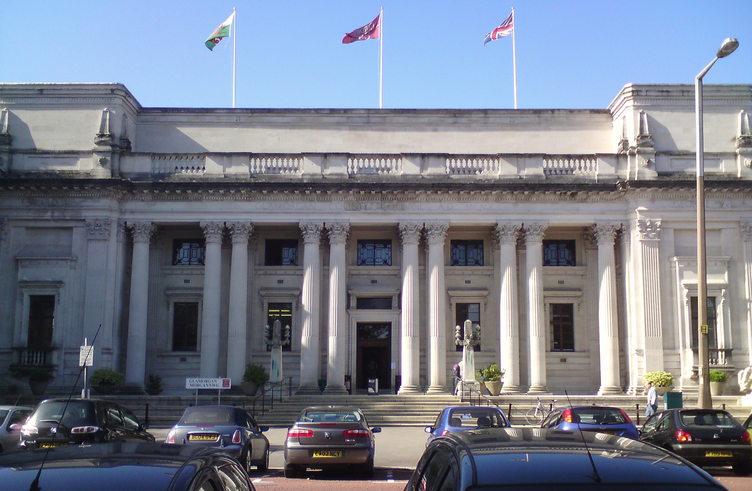 Glamorgan Building, Cardiff University